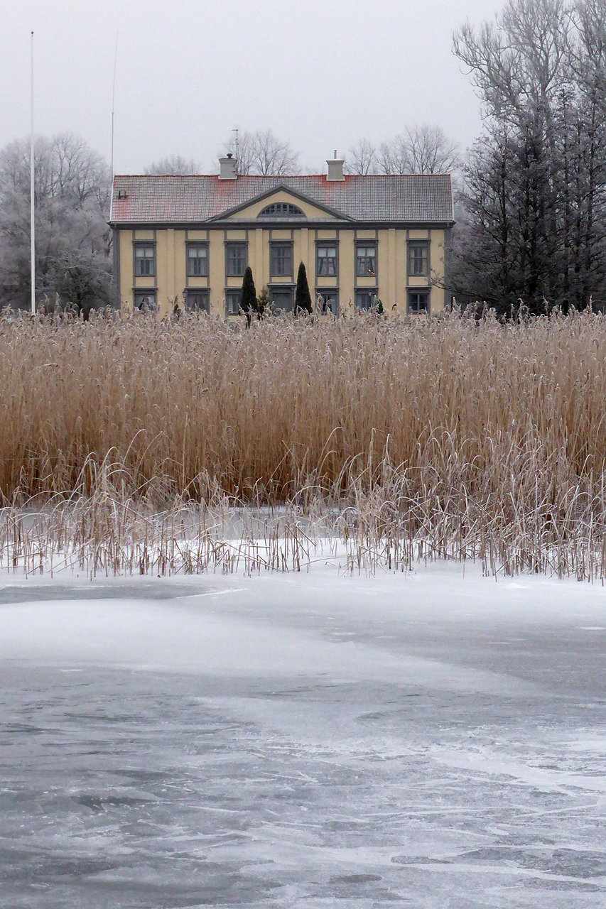 Eggebyholm, from the great lake, taken midst december.